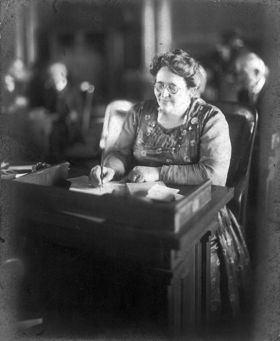 Minnie J. Grinstead, the first woman elected to the Kansas House of Representatives.